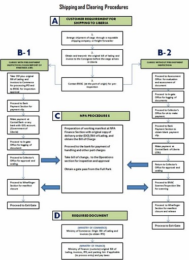 Current 2011 Shipping and Clearing Procedures at the Port